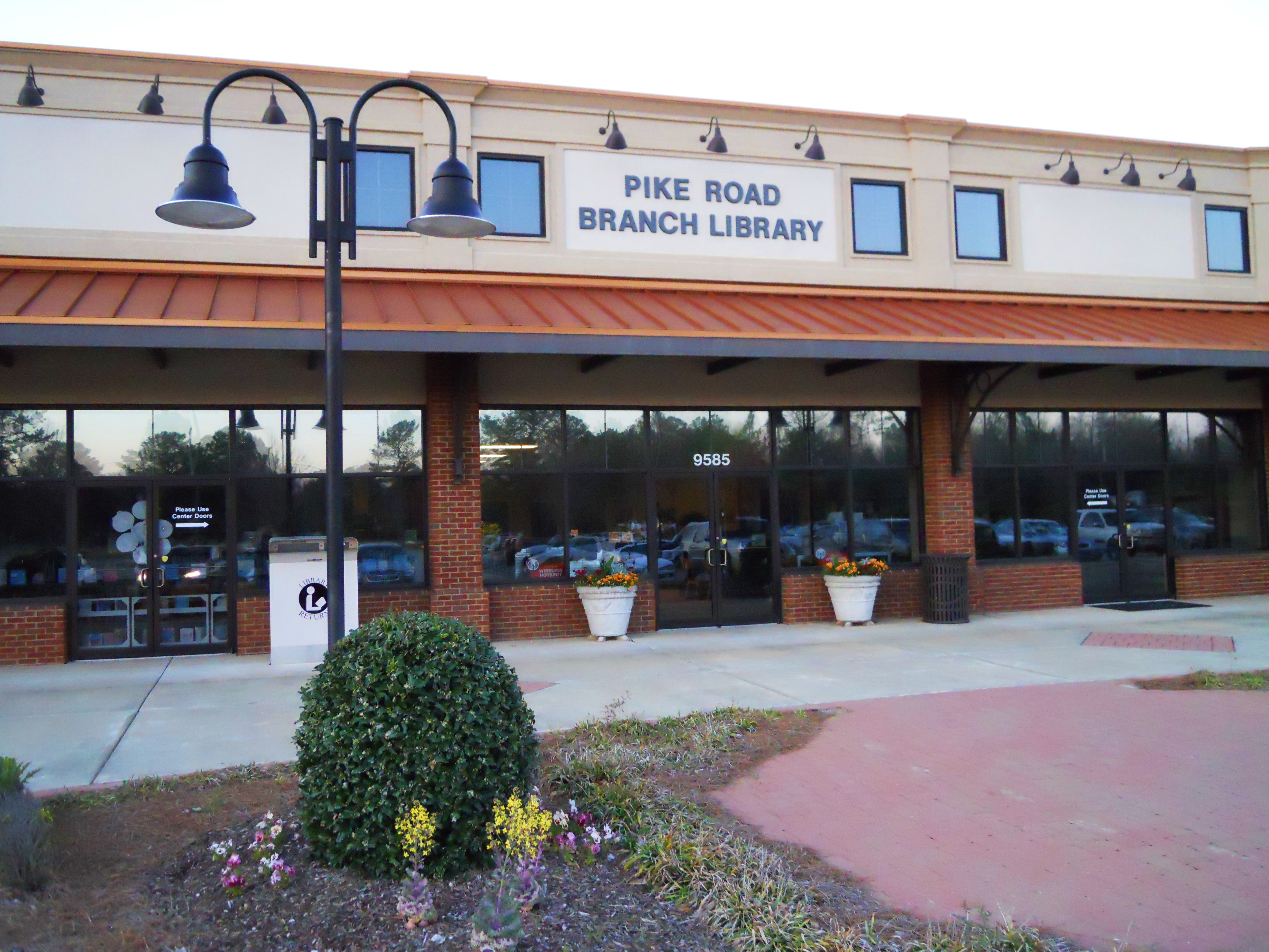 This is a photograph of the Pike Road Branch Library located adjacent to the Pike Road Town Hall at 9585 Vaughn Rd. in Pike Road, Alabama.